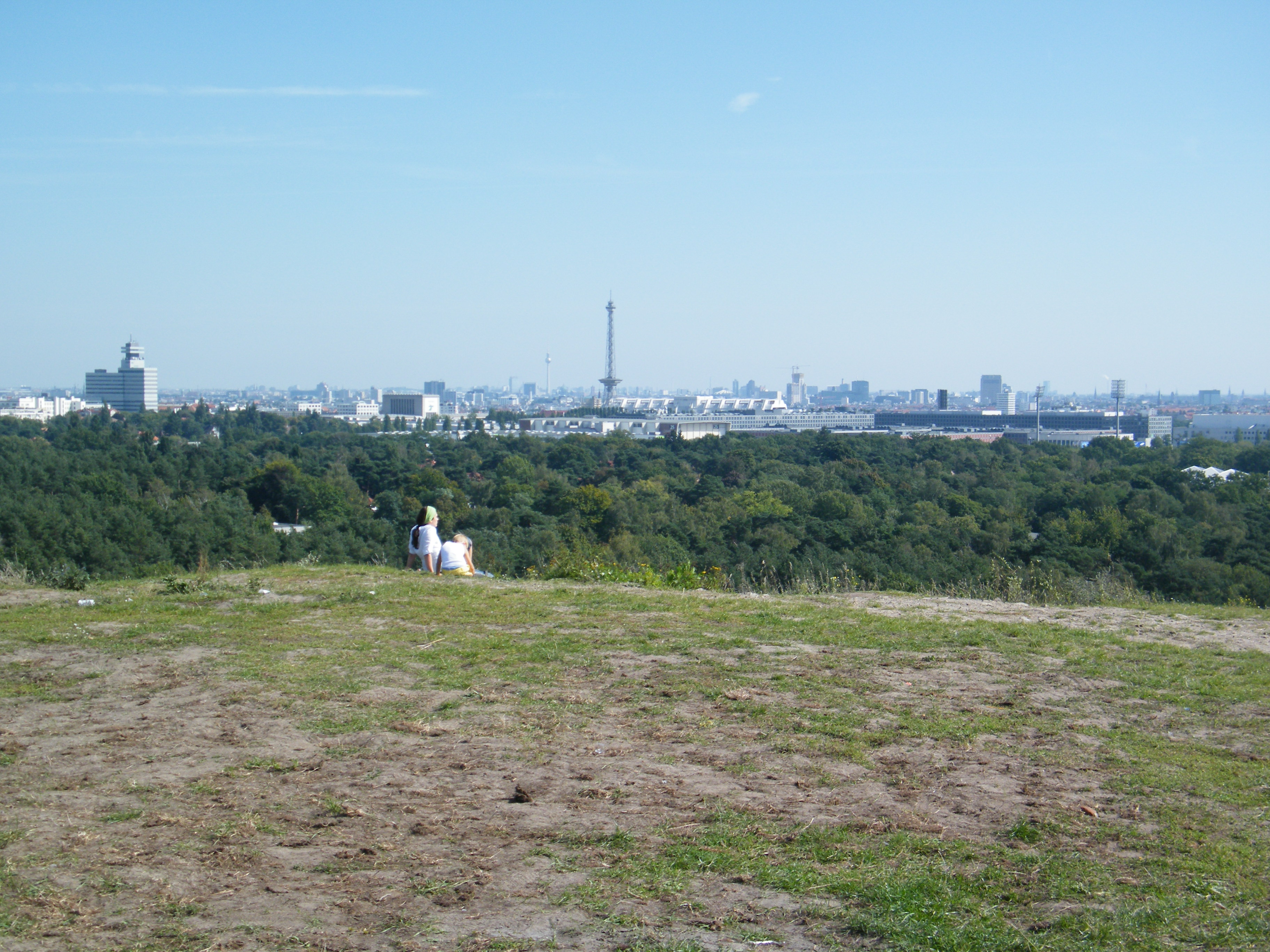 View on Berlin from top of Drachenberg